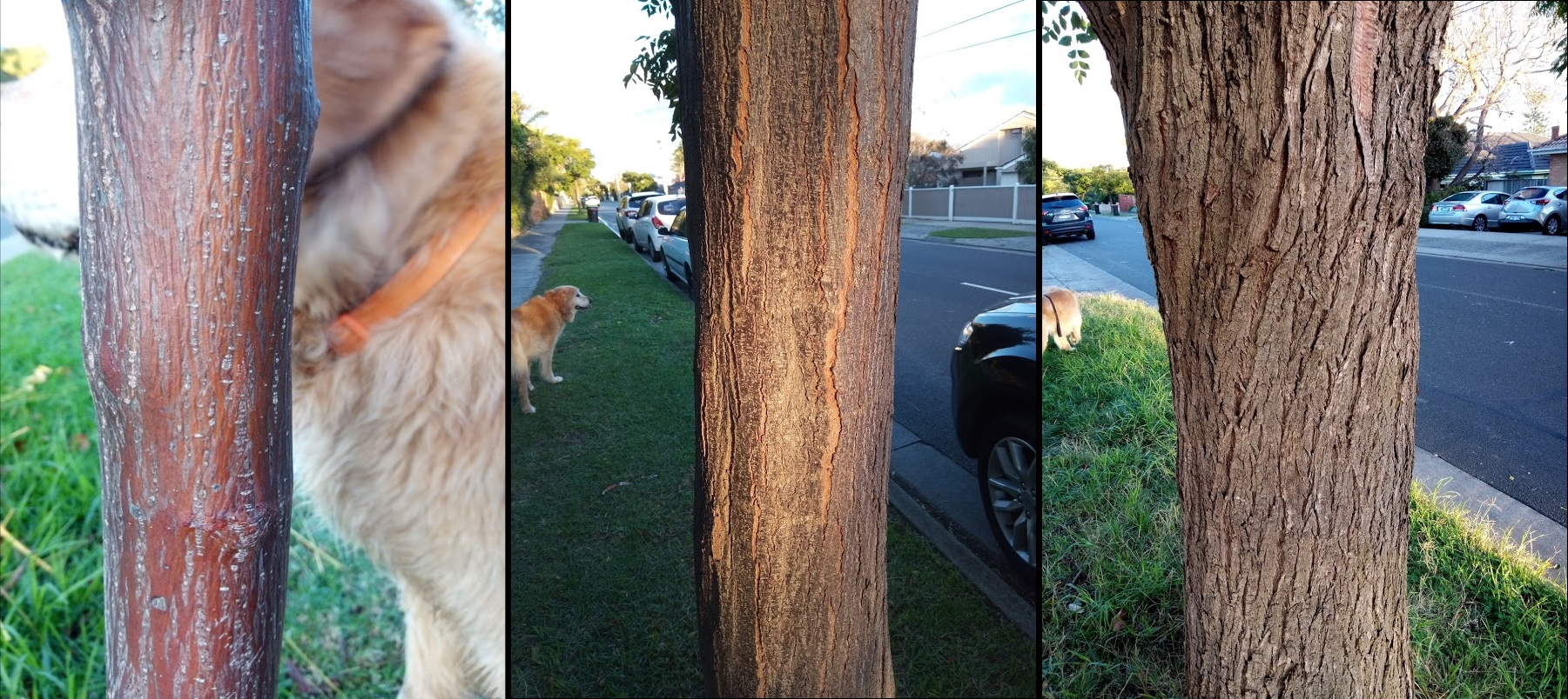 The shows the change in bark across different life stages of the tree with youngest (left) to oldest (right). The dog (a golden retiever) helps provide scale of the tree's size.